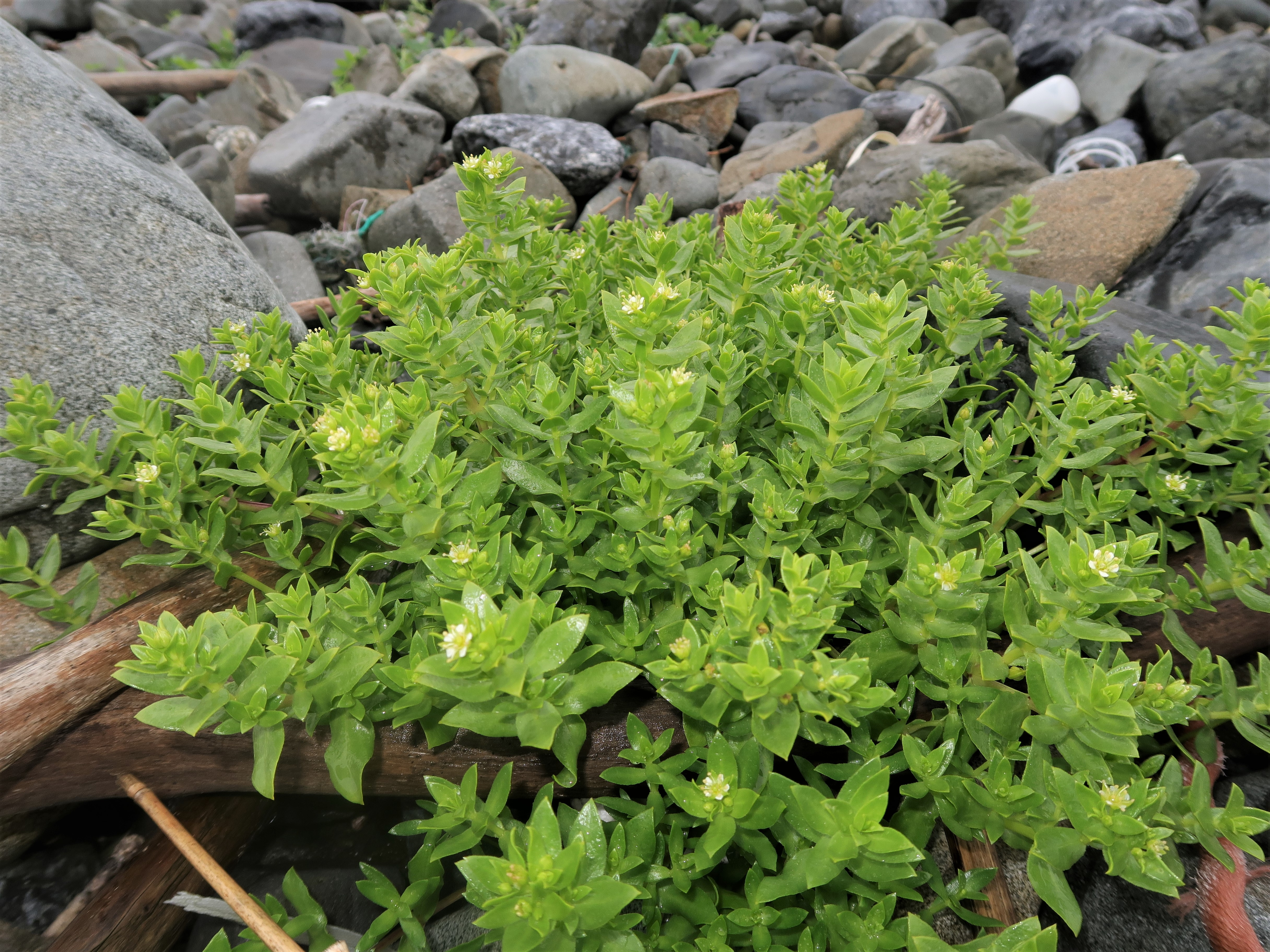 Honckenya peploides subsp. major, Shimokita Peninsula, Aomori pref., Japan